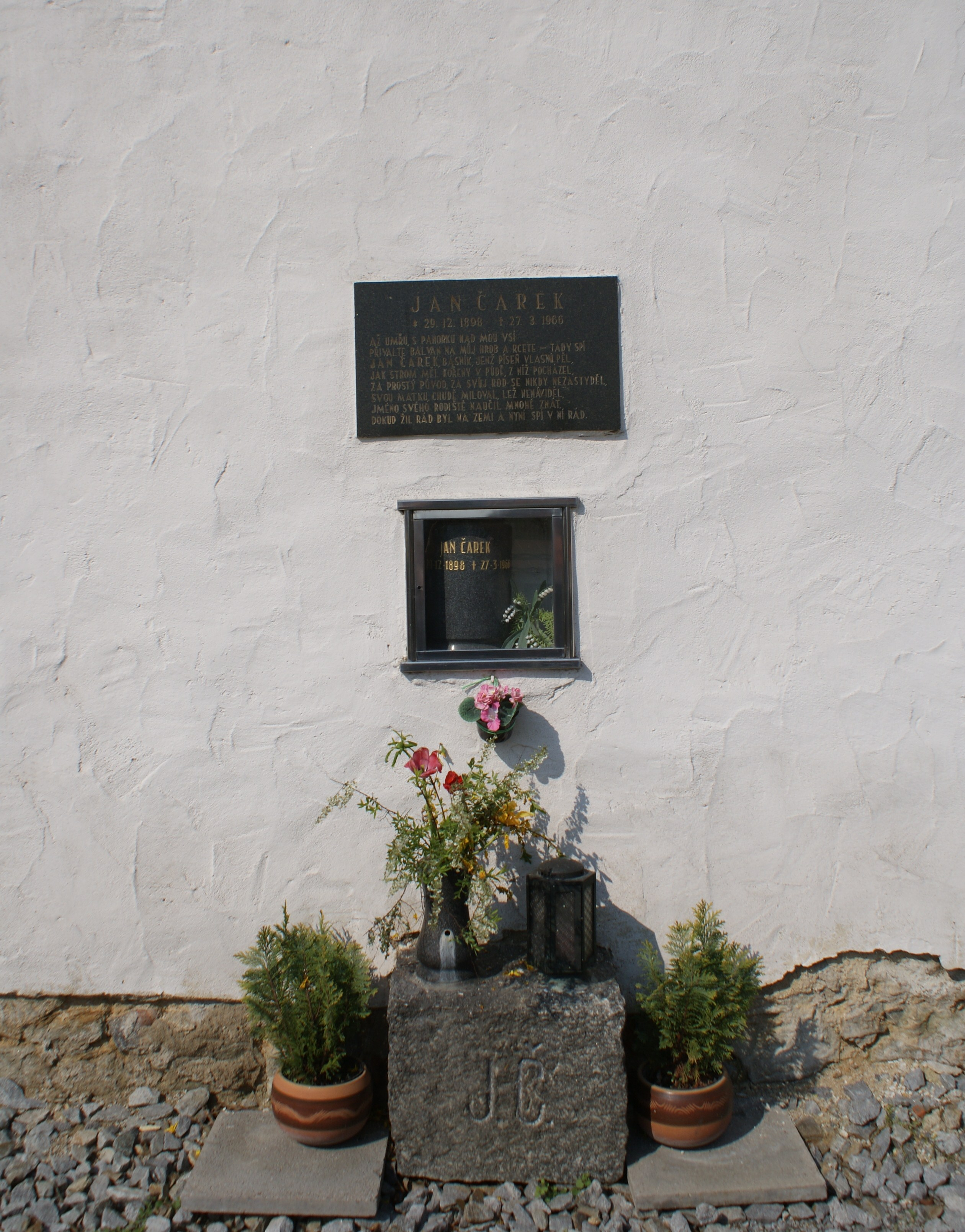 Heřmaň, a village in Písek district, Czech Republic. The last resting place of the Czech poet Jan Čarek in the church wall.